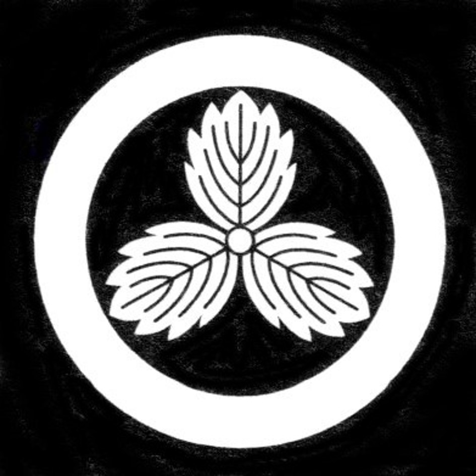 Crest of Makino at Tanabe, Japan